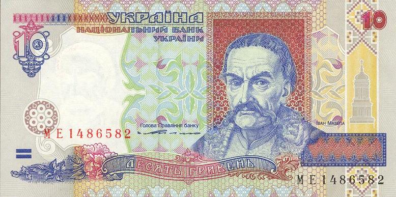 10 Hryvnia banknote (Ukraine), 1994, f